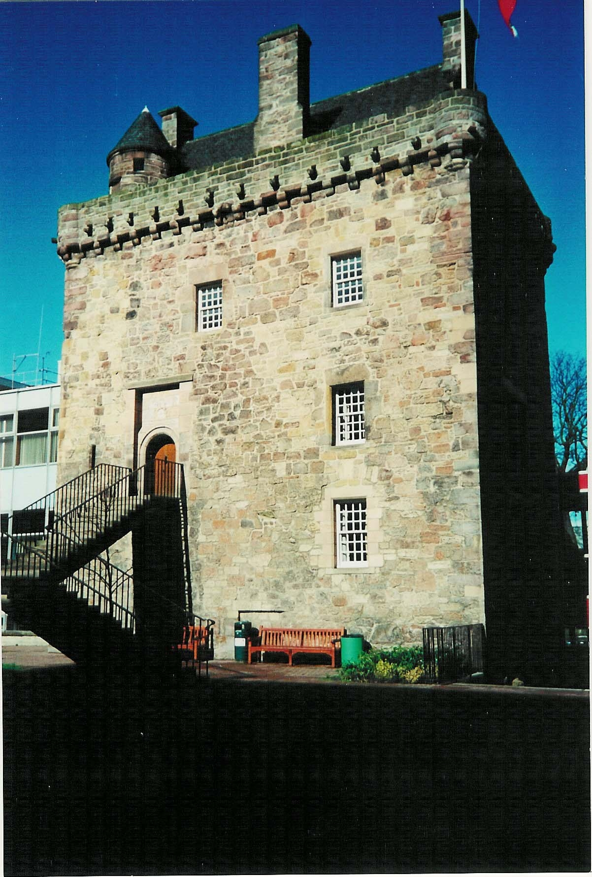 A photo of Merchiston Castle, Edinburgh, taken March 2001